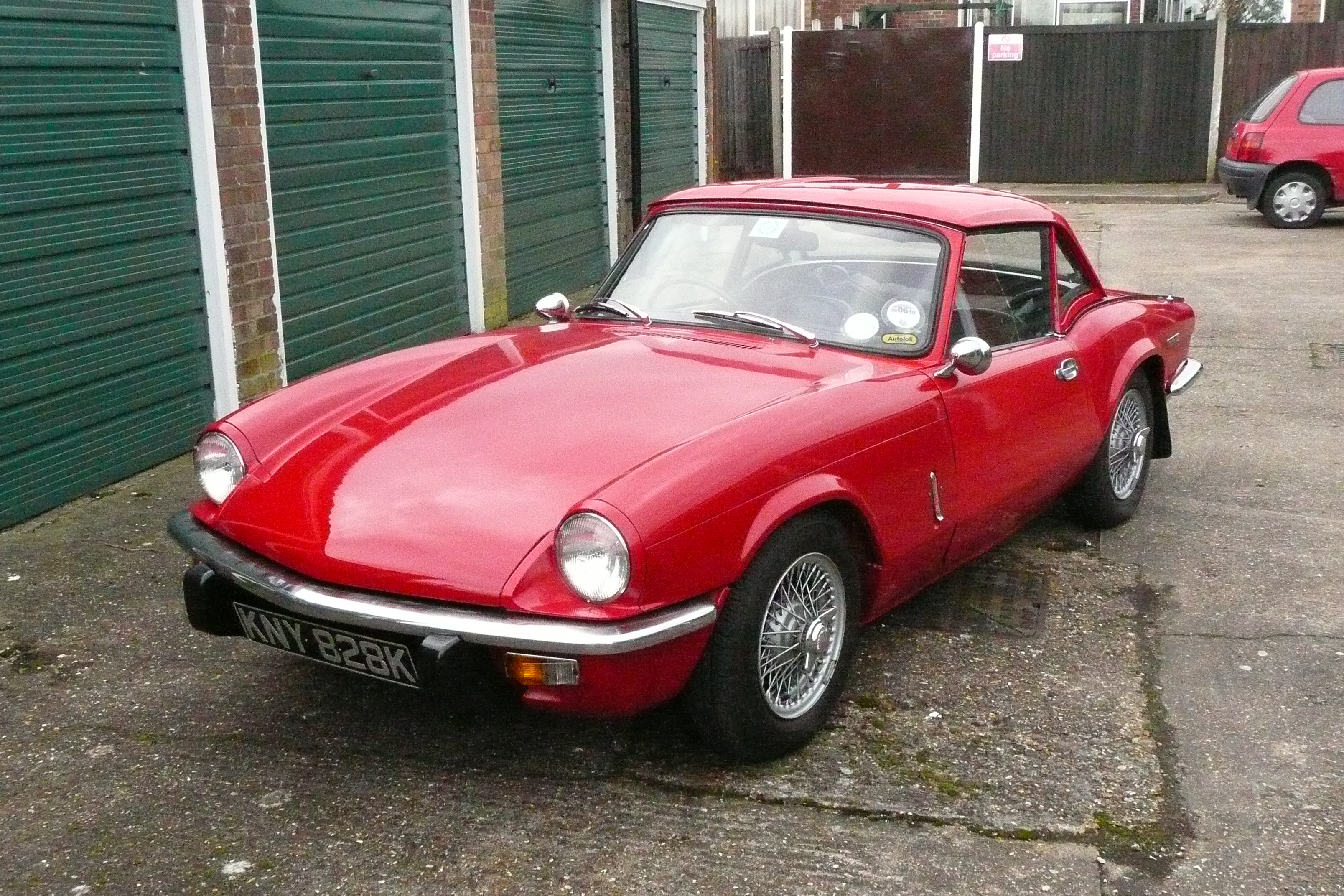 Triumph Spitfire Mark IV - 1971. Pimento Red with detachable hardtop and knock-on wire wheels.